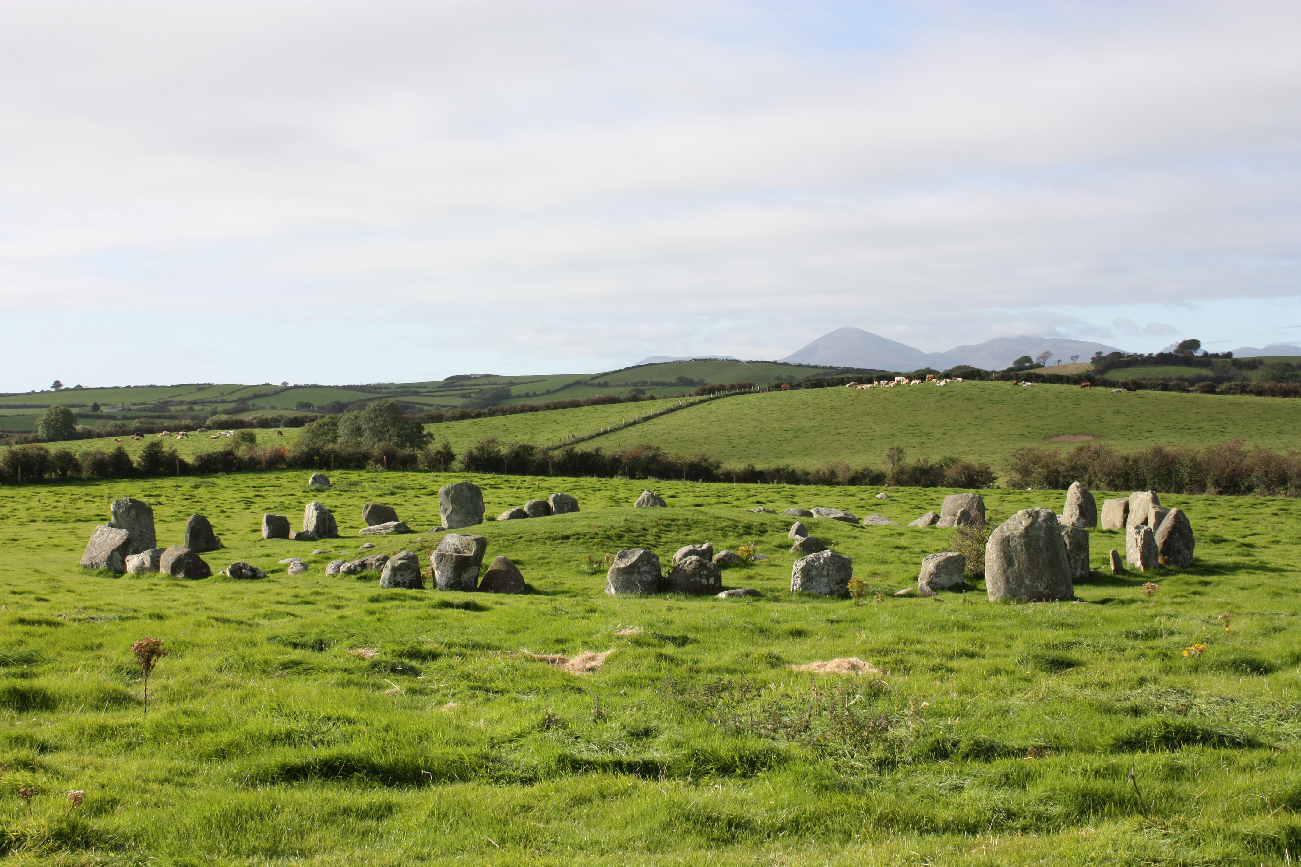 Ballynoe stone circle, Ballynoe (near Downpatrick), County Down, Northern Ireland, September 2009 (with Mourne Mountains in the background)